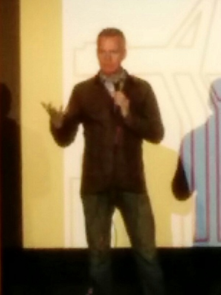 Mark Christopher at a Q&A session for 54: Director's Cut at the Castro Theatre in San Francisco, California, United States